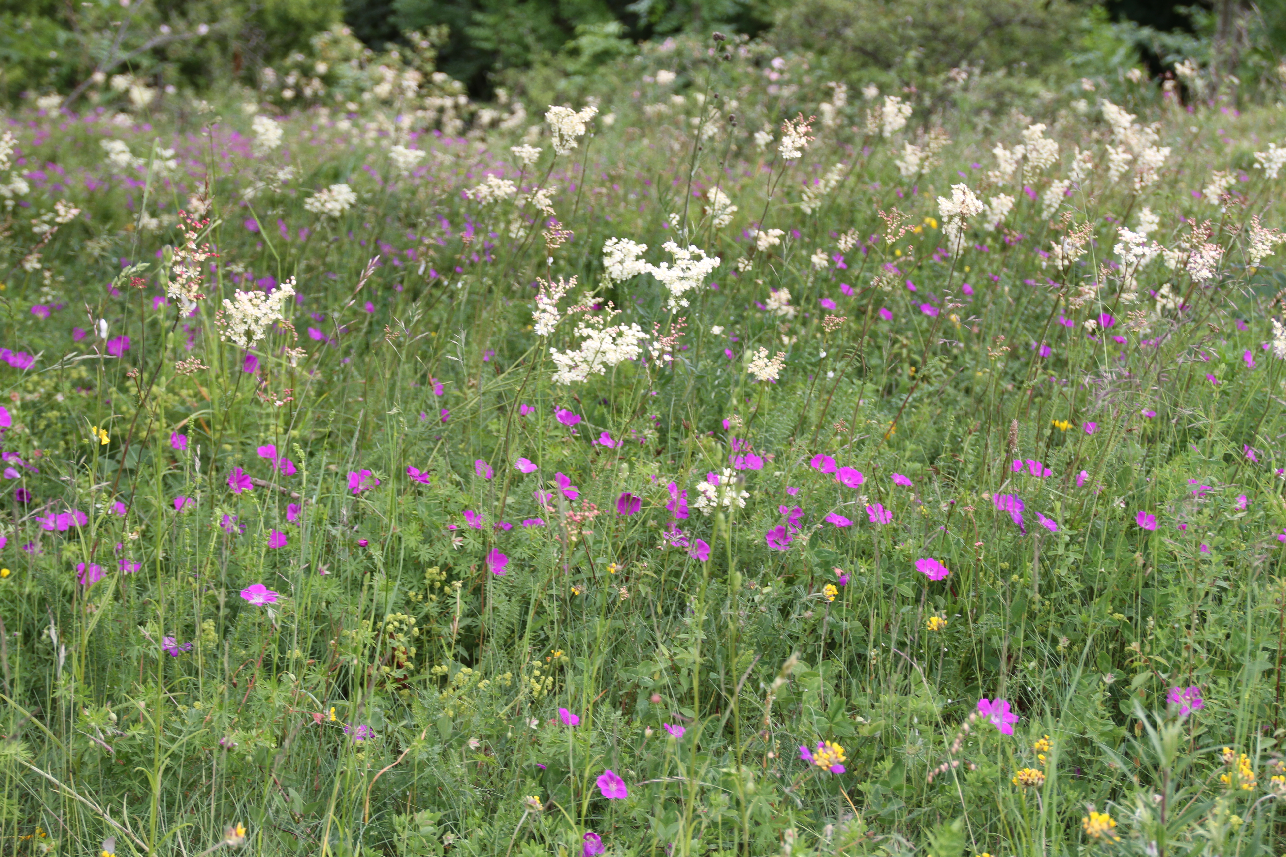 Flower field/meadow at Hovedøya, Oslo, Norway.